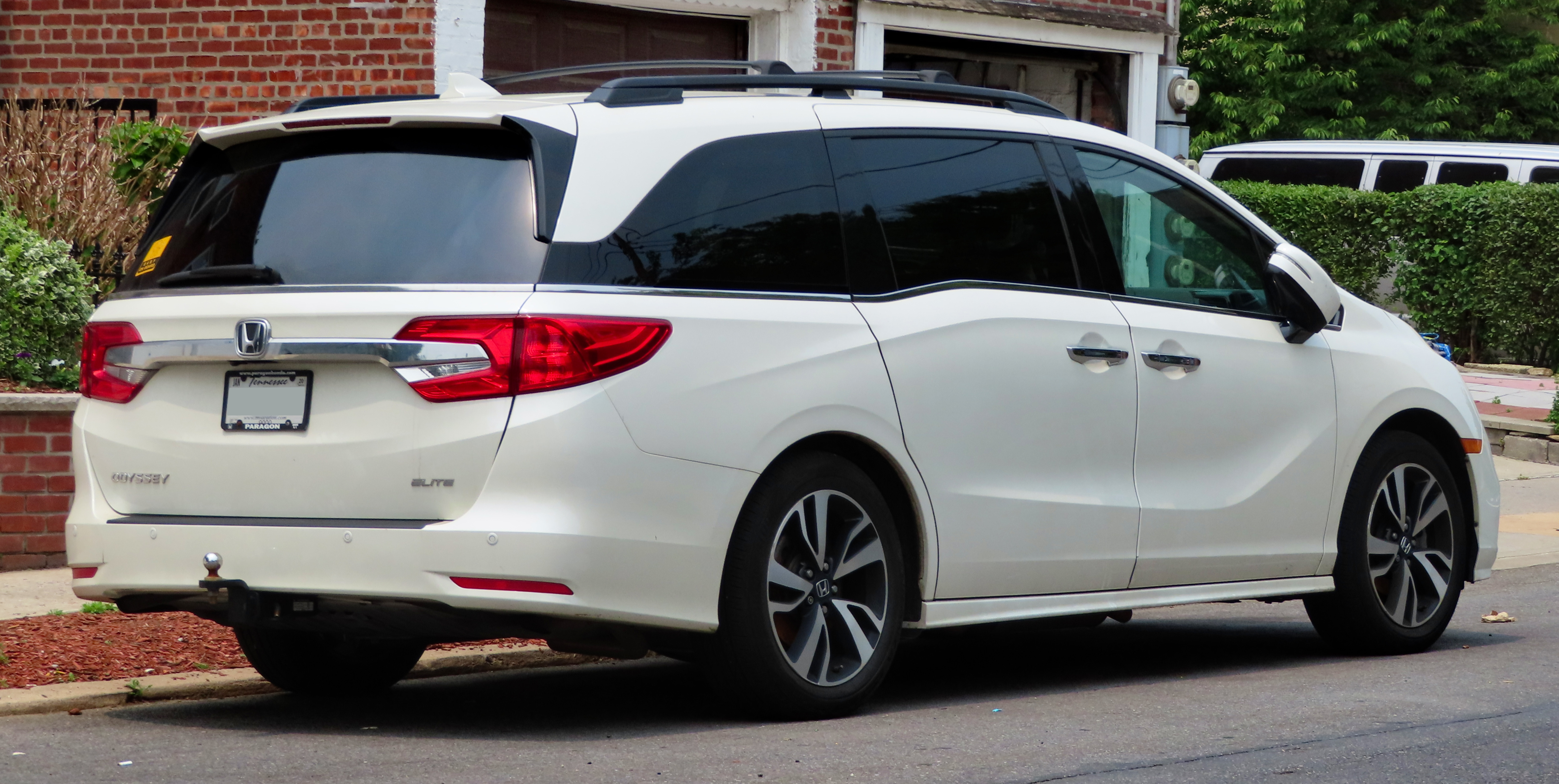 A 2018 Honda Odyssey Elite photographed in Flushing, Queens, New York, USA